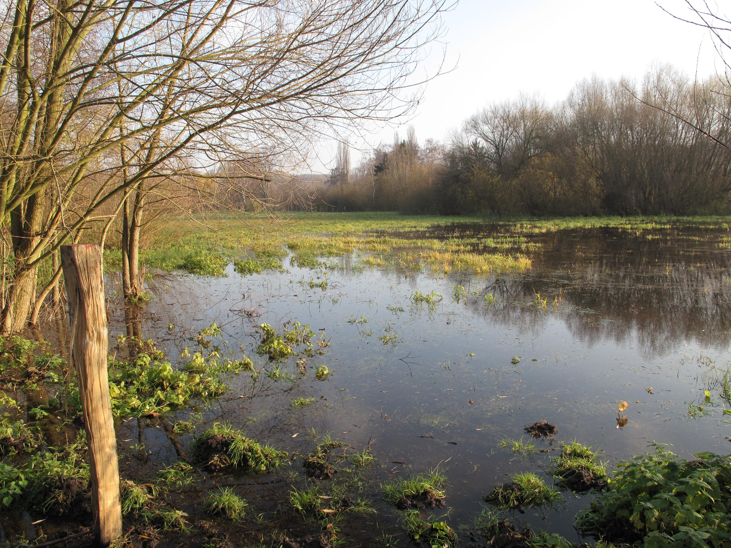 Wet "Tiefwerder Wiesen" (meadows) in Tiefwerder, Berlin. The Tiefwerder Wiesen are a protected area (german: Landschaftsschutzgebiet) beside the river Havel and Berlins last natural flood plain and last spawn-area for the Northern pike.